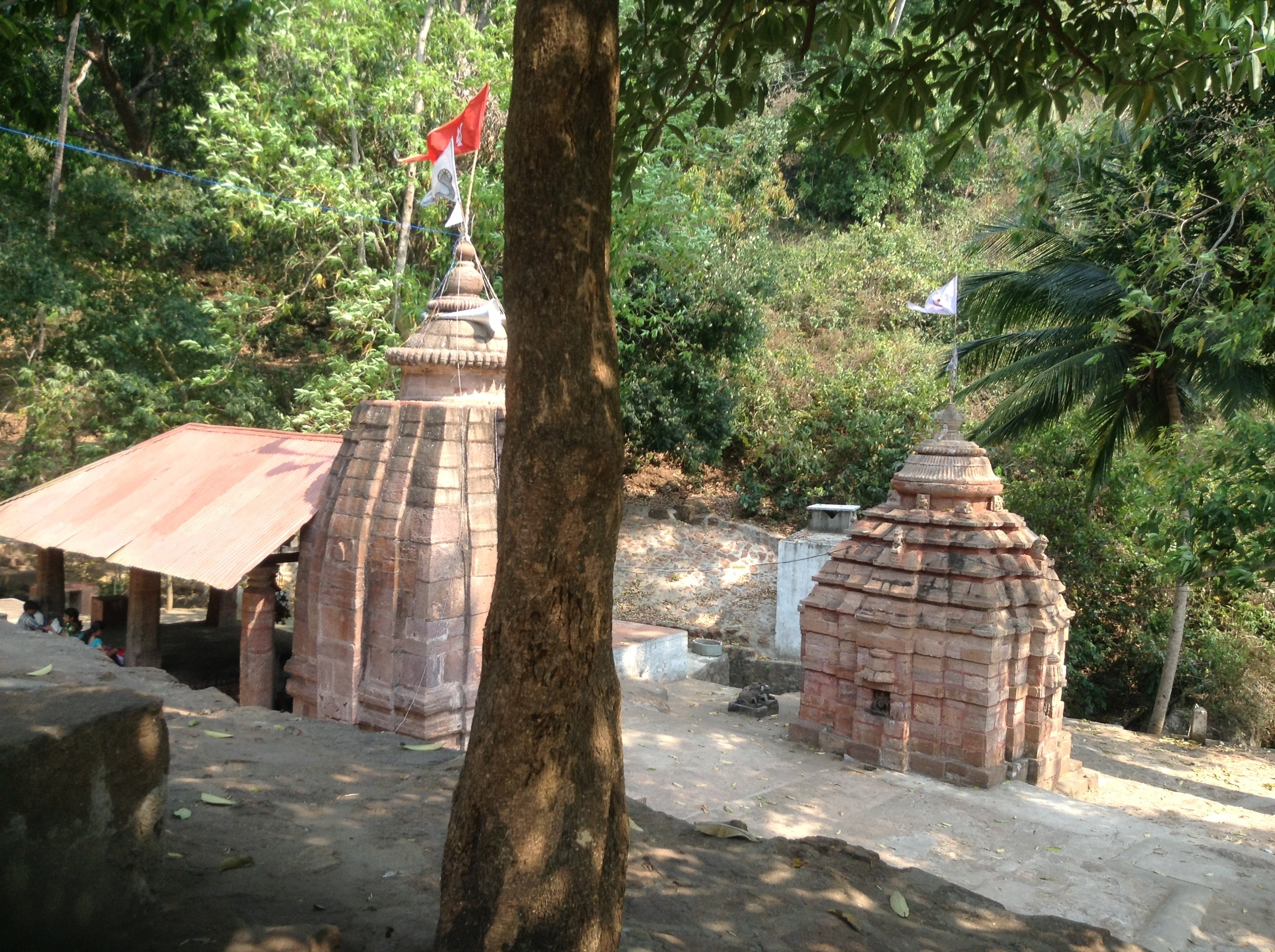 Brudhakholo is one most popular picnic spot in Ganjam district .It is around 3km from Buguda.One get to see lots trees,hills,caves,perennial streams and temple on hill top.